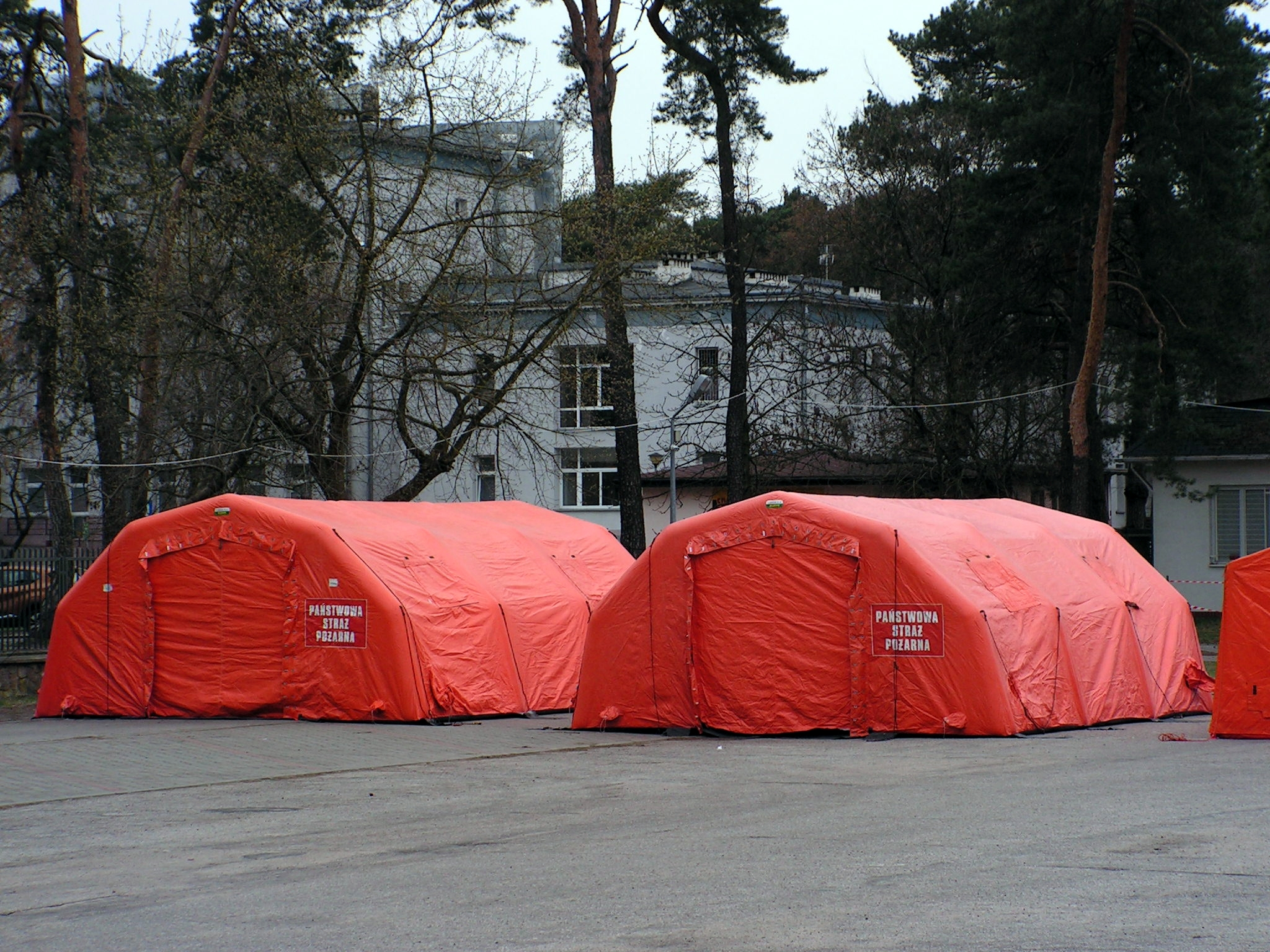 Tents in front of Wojewódzki Szpital Specjalistyczny (Voivodeship Technical Hospital) named of Jerzy Popiełuszko in Włocławek, in which their are admissing patients with suspicion of coronavirus.